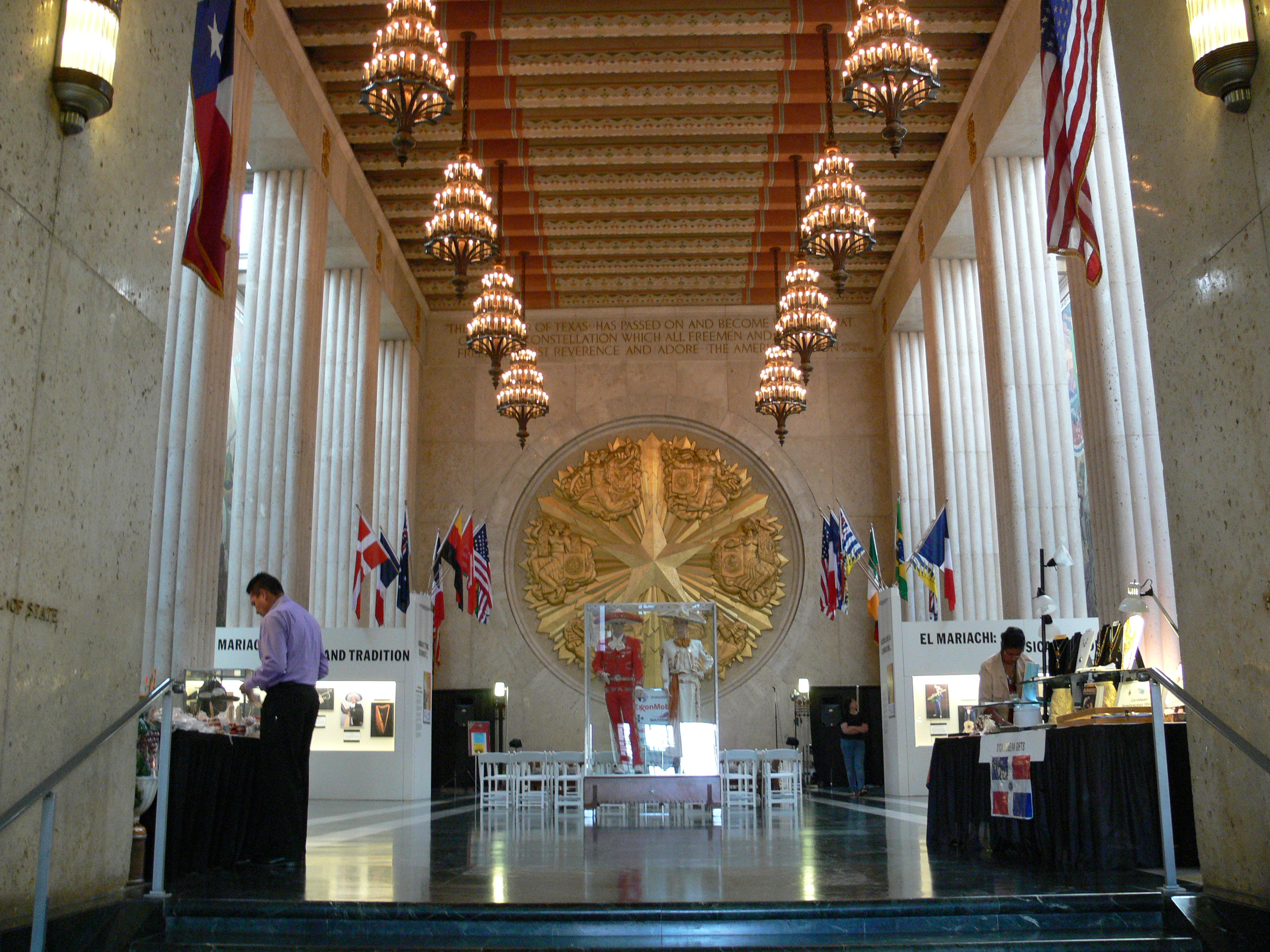 Fair Park, Dallas, Texas: interior of the Hall of State during the State Fair of Texas, 2008